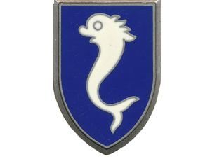 regimental badge of the 12th Cuirassiers.